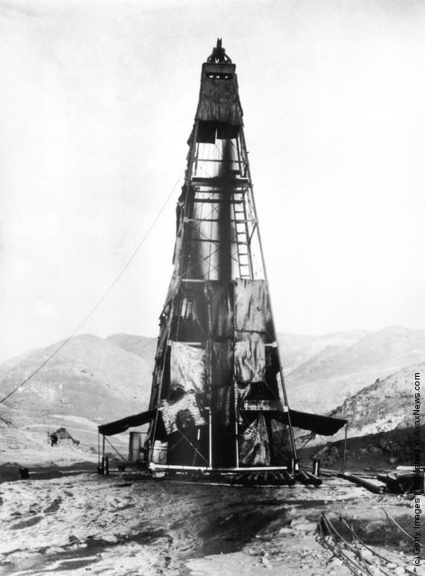 The Well number one (Masjed Soleyman Well) was first Oil Well in Iran. The Well Was drilled in 23th of January 1908 by Anglo-Persian Oil Company and It completed in 26th of May in the same year.